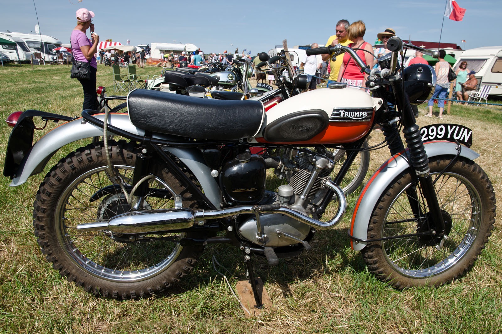 Triumph T20 Tiger Cub Trials (1960) Cheshire Steam Fair 14/07/2013